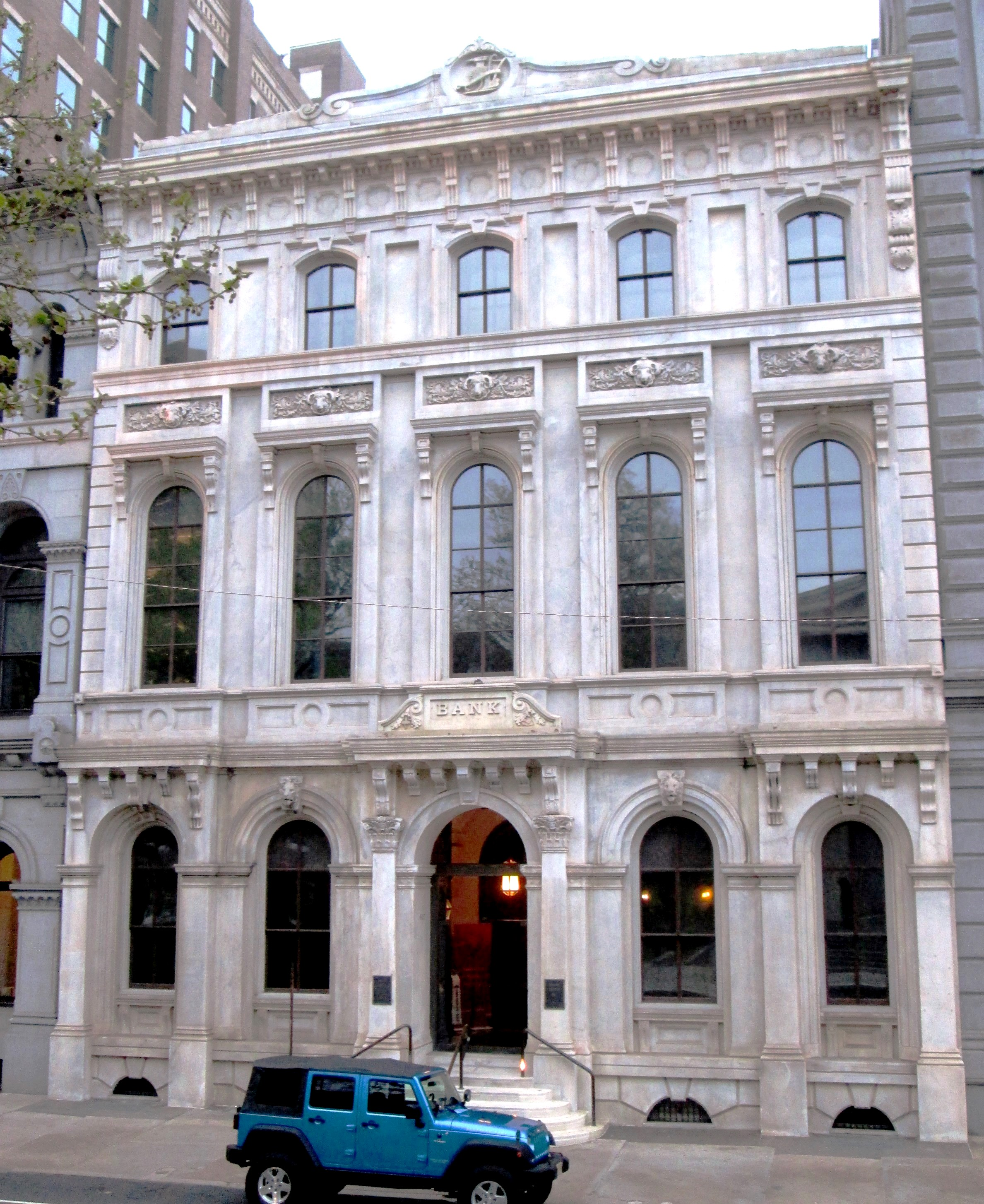 The Farmers' & Mechanics' Bank Building at 427 Chestnut Street between S. 4th and S. 5th Streets in the Center City area of Philadelphia was built in 1854-55 and designed by John M. Gries in the Italianate style with a marble facade. It was modeled after an Italian Renaissance palace, with a three-story main banking hall in the rear of the building topped by a skylight. Wrought- and cast-iron was used throughout the building, which had Corinthian columns in the grand hallway that lead to the banking hall. The bank merged with the Philadelphia National Bank in 1918, but the building remained in use as a bank until 1976. In 1965 the Philadelphia Maritime Museum began renting space in the building, but moved out in 1974; it is now known as the Independence Seaport Museum. The building was bought by the American Philosophical Society in 1981 and in 1983 was renovated into Benjamin Franklin Hall by Bower Lewis Thrower. The Hall is now the site of mosyt major events hosted or produced by the Society, and of their meetings. (Sources: Philadelphia Architecture: A Guide (2nd ed.) and [ "Benjamin Franklin Hall" on the American Philosophical Society website)